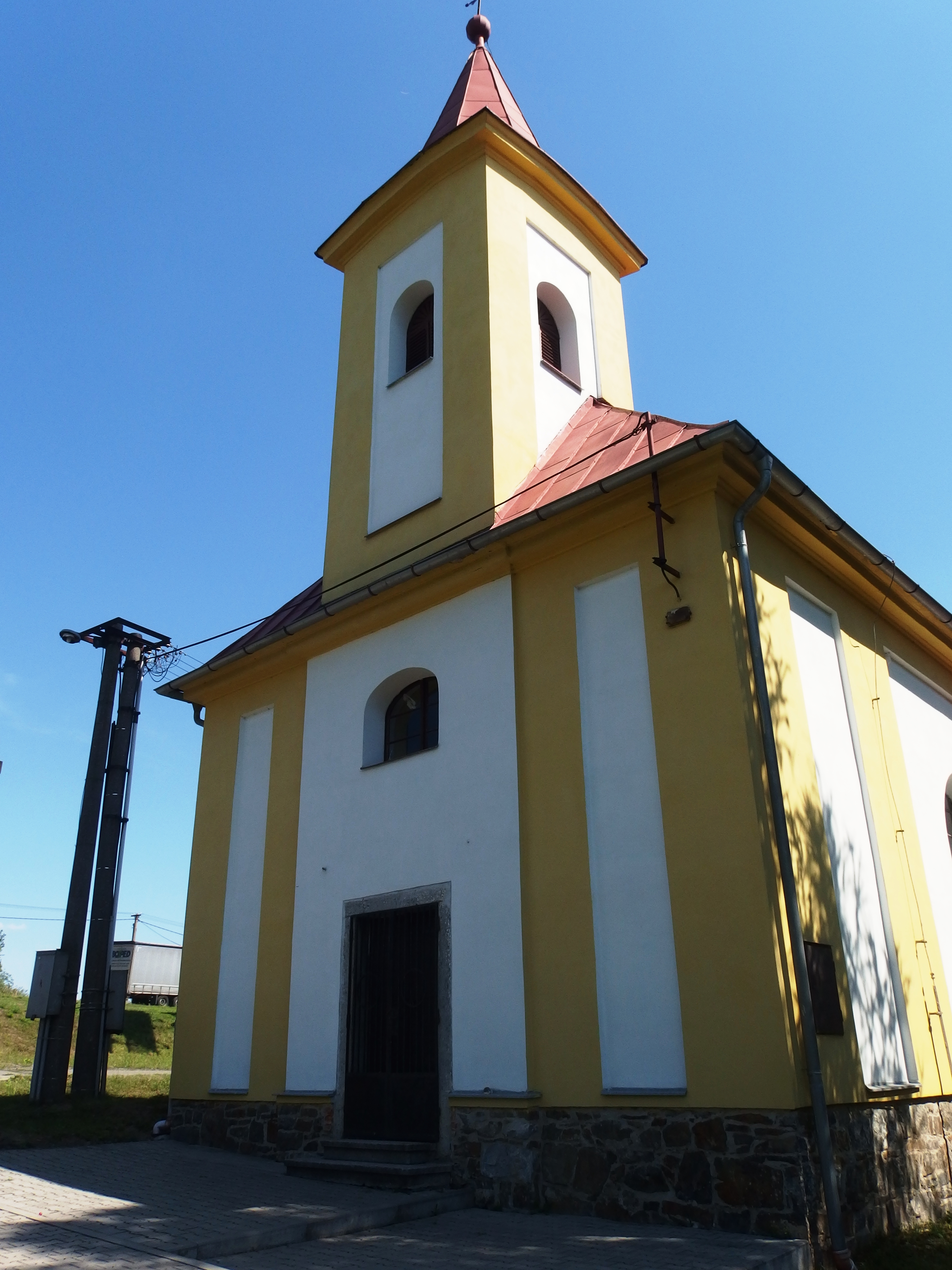 Polom, Přerov District, Czech Republic.